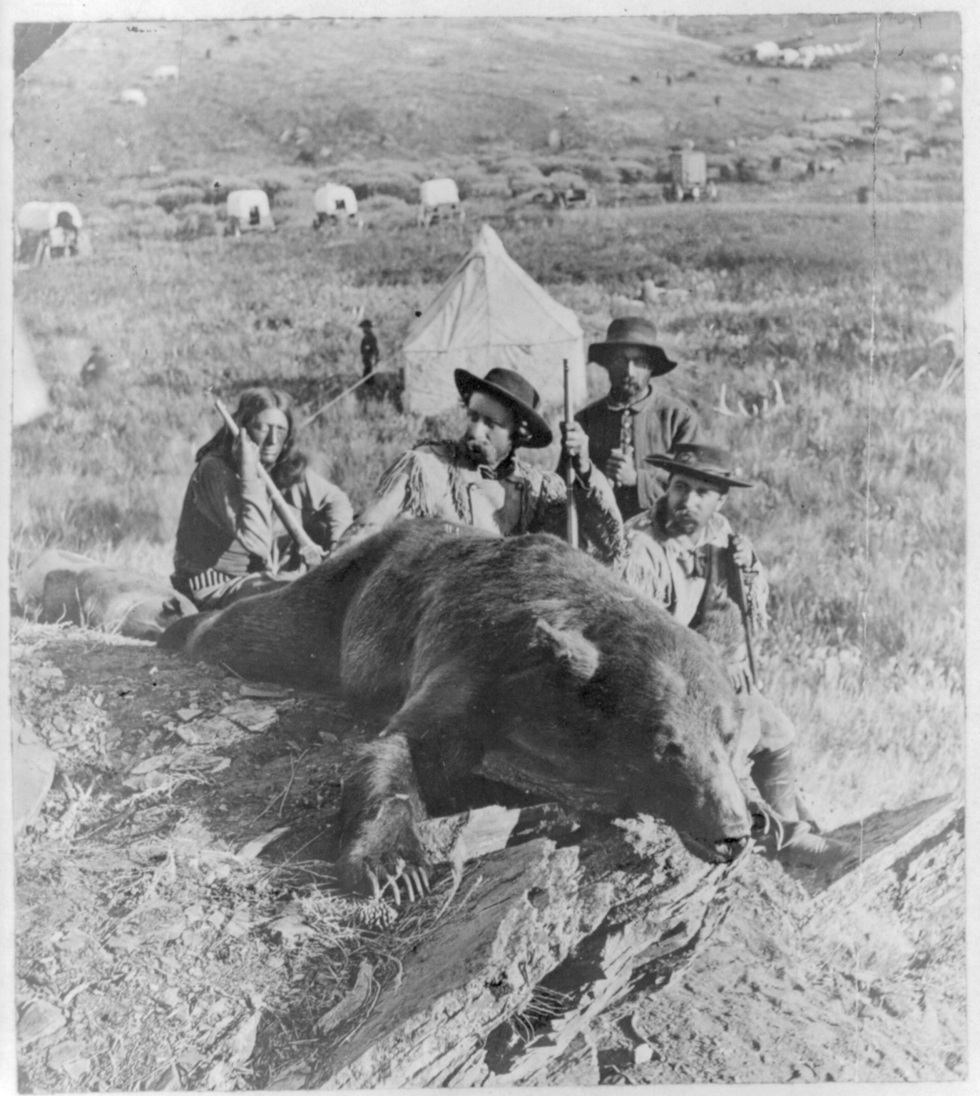 Detail of photograph of Arikara Indian scout Bloody Knife, Custer and Captain Ludlow during the Black Hills Expedition in 1874